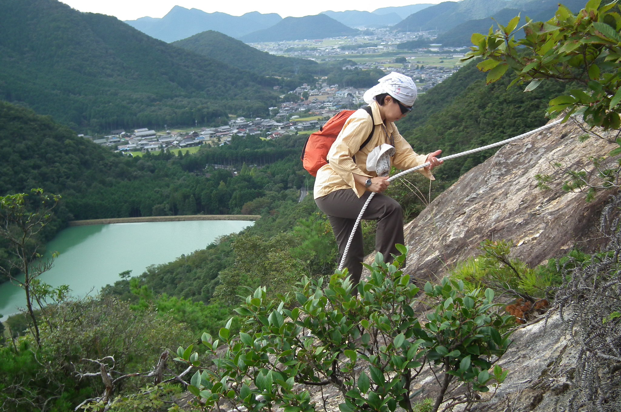 Akitani Pond seen from Mount Haku (Haku-san) in Nishiwaki City, Hyogo Prefecture, Japan